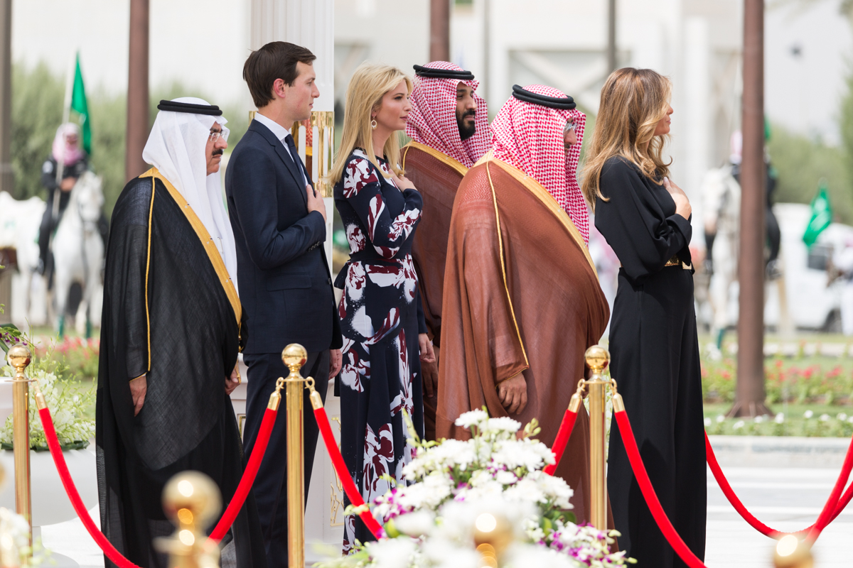 First Lady Melania, joined by White House Senior Adviser Jared Kushner and Assistant to the President Ivanka Trump, participate in the arrival ceremonies, Saturday, May 20, 2017, at the Royal Court Palace in Riyadh, Saudi Arabia. (Official White House Photo Shealah Craighead)